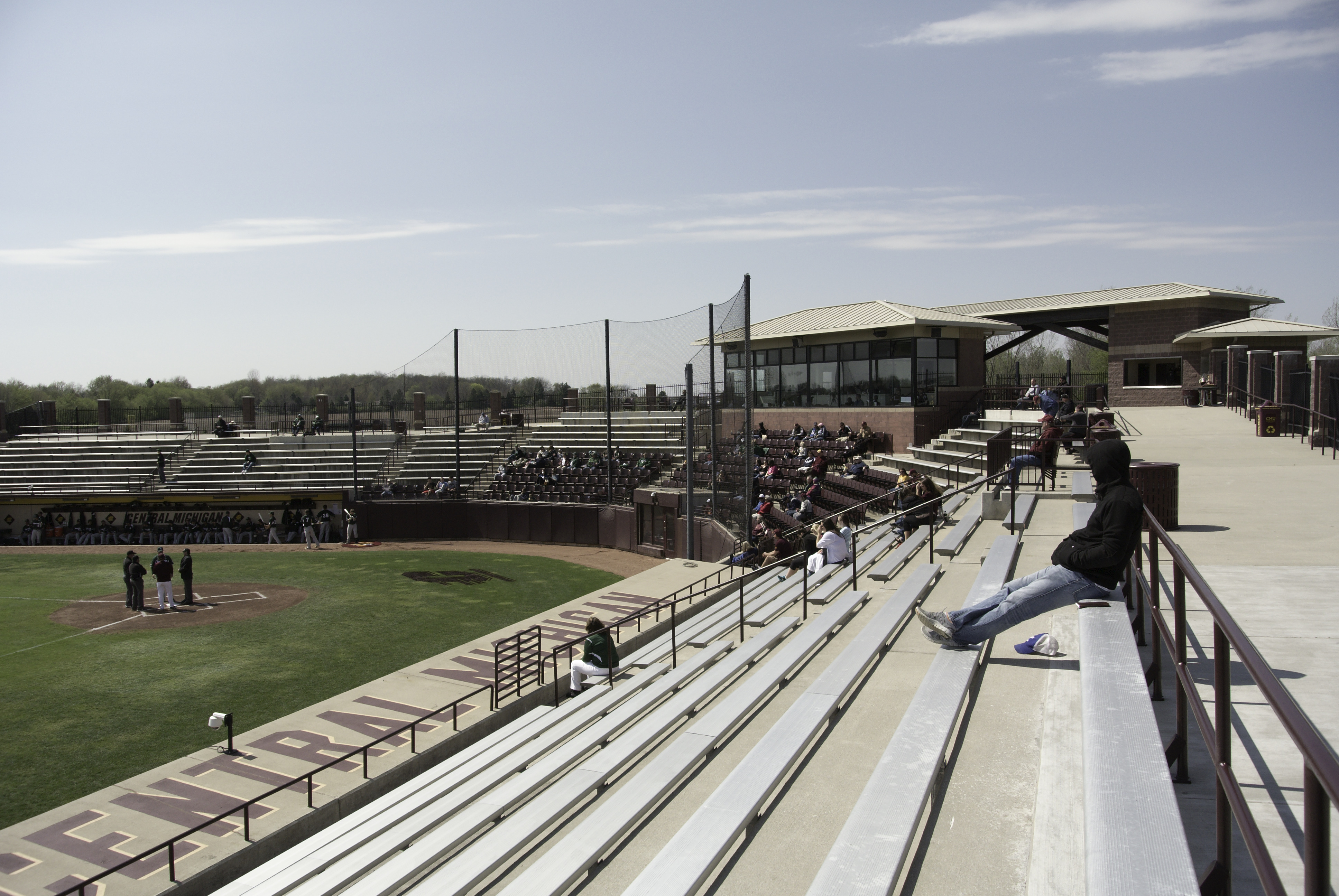 Michigan State @ Central Michigan 04192012